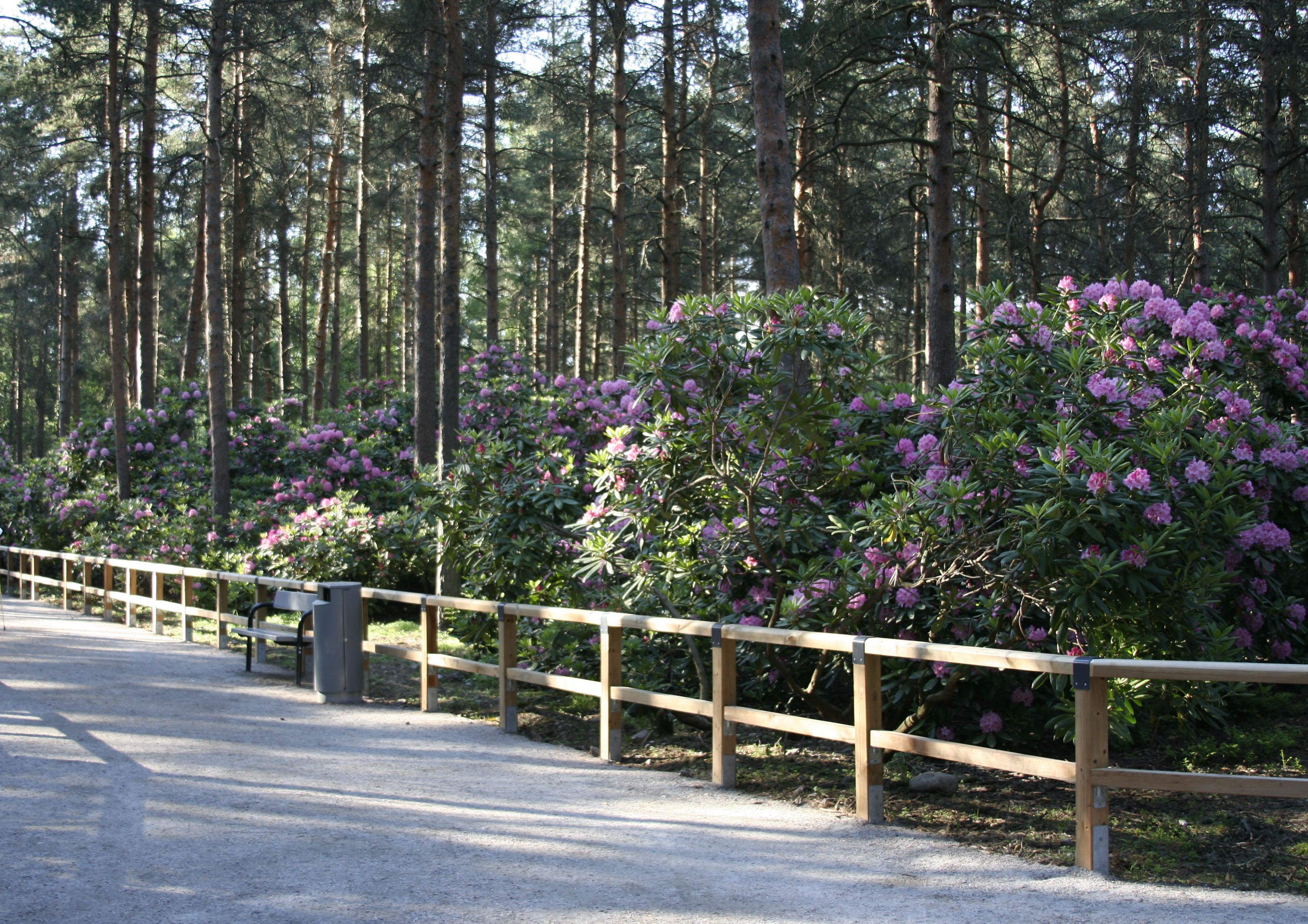 The Rhododendron Park at Helsinki University, Helsinki, Finland. It is a public park, and simultaneously a Helsinki University plant breeding experimental site.